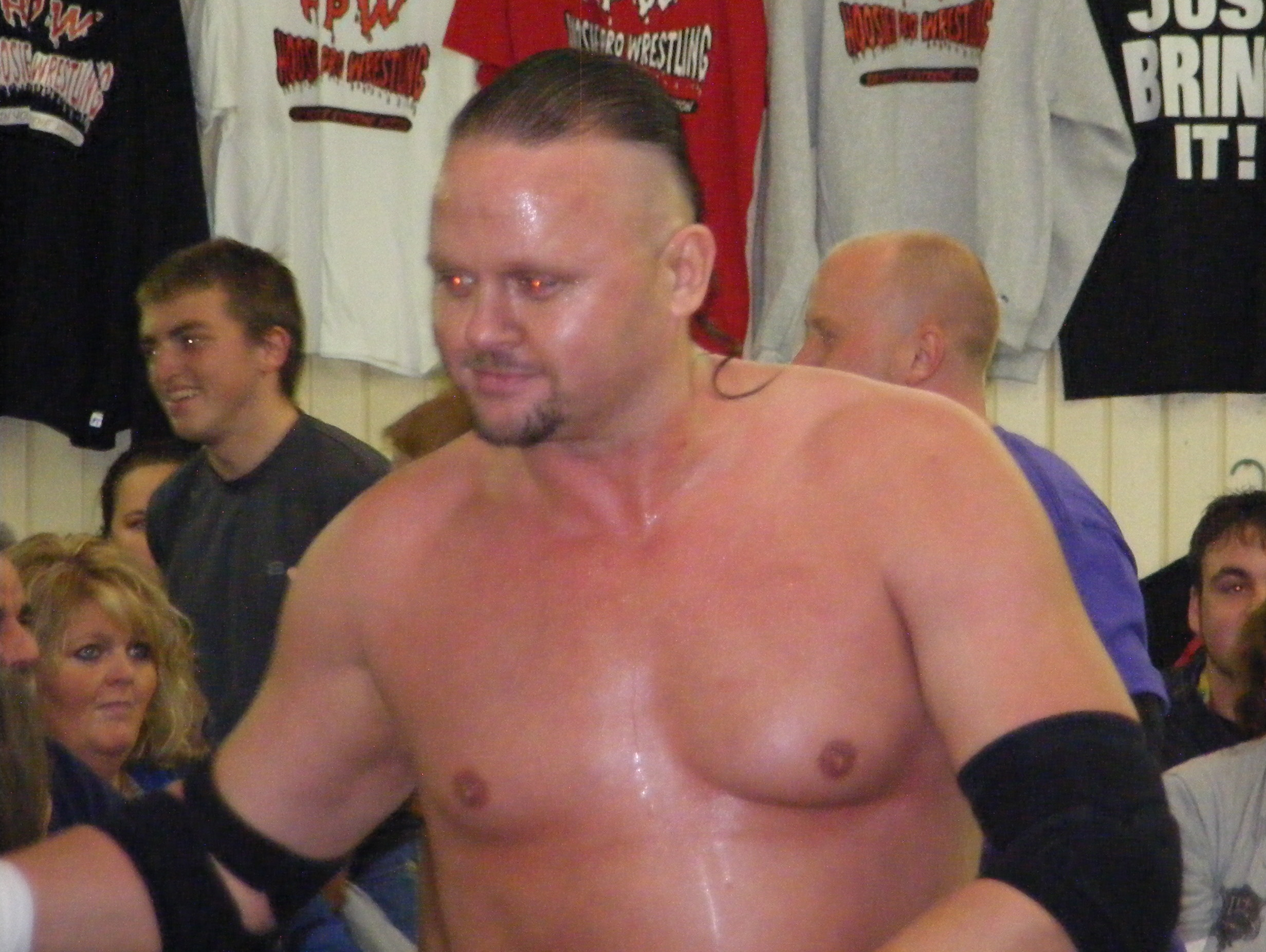 Flash Flanagan at a Hoosier Pro Wrestling show on December 3, 2011 in Columbus, Indiana.